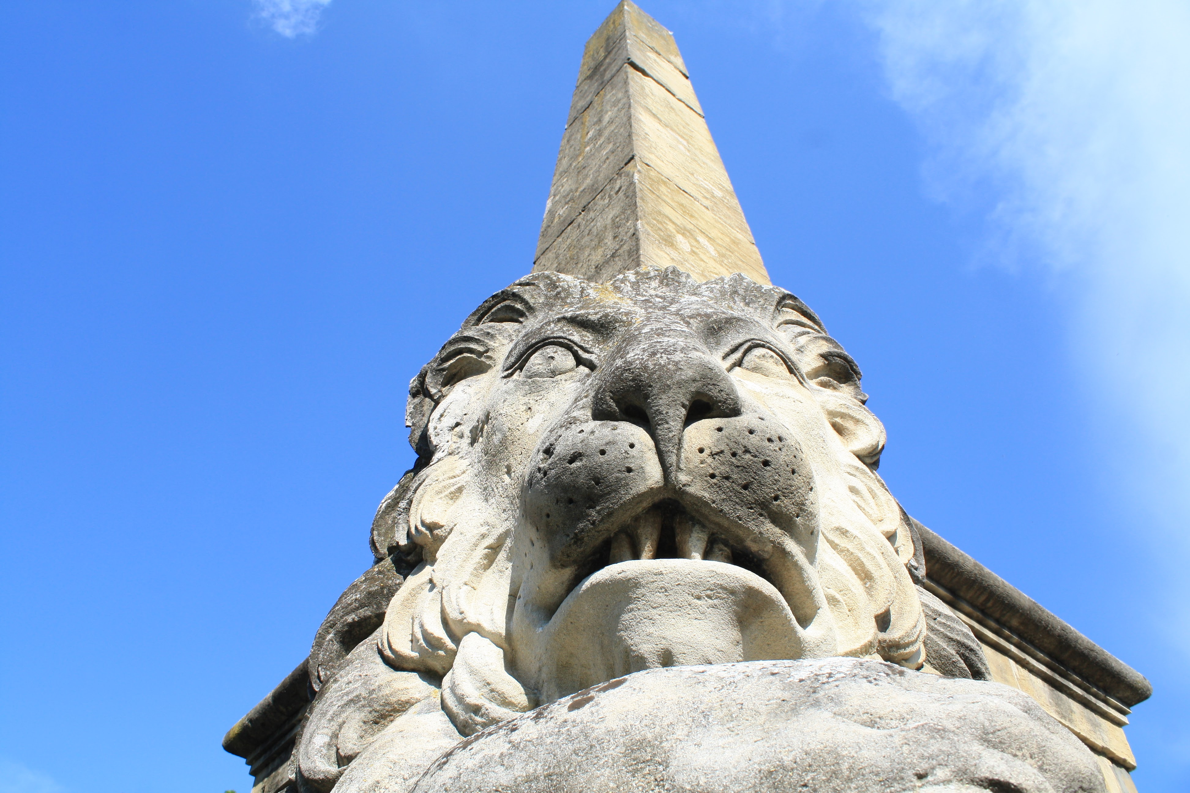 Obeliscul cu lei din Iaşi (detaliu) (7)